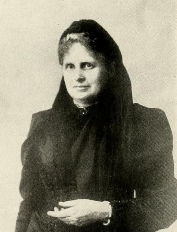 Photographic portrait of American activist, educator, and reformer Mary H. Hunt (1830-1906). From American Women: Fifteen Hundred Biographies with Over 1,400 Portraits, Frances E. Willard and Mary A. Livermore, editors. Mast, Crowell & Kirkpatrick, 1897 (revised edition from 1893), vol. 1, p. 404